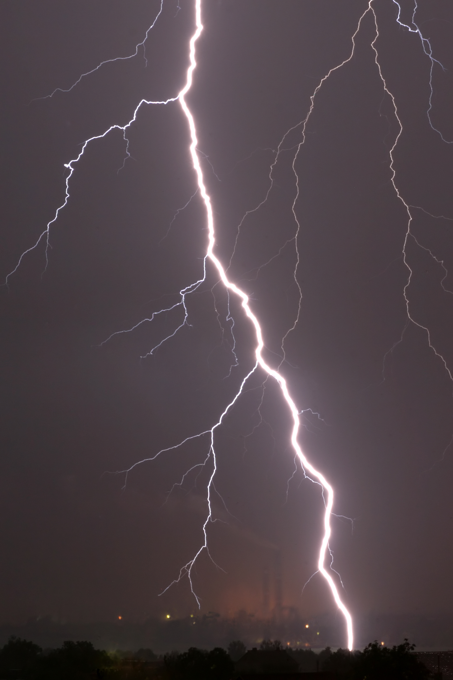 Lightning